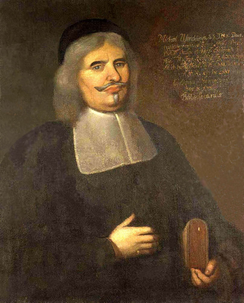 Michael Wendler also: Wendeler, Wendelerus (1610-1671) German moral philosopher and theologian of Lutheran